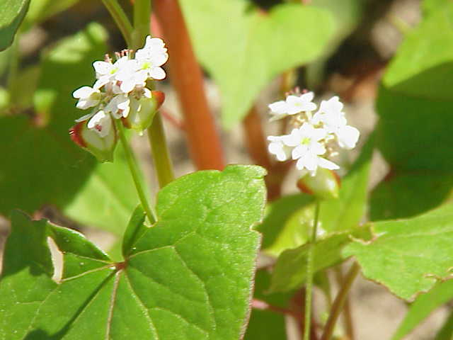 Species: Fagopyrum esculentum Family: Polygonaceae Image No. 1